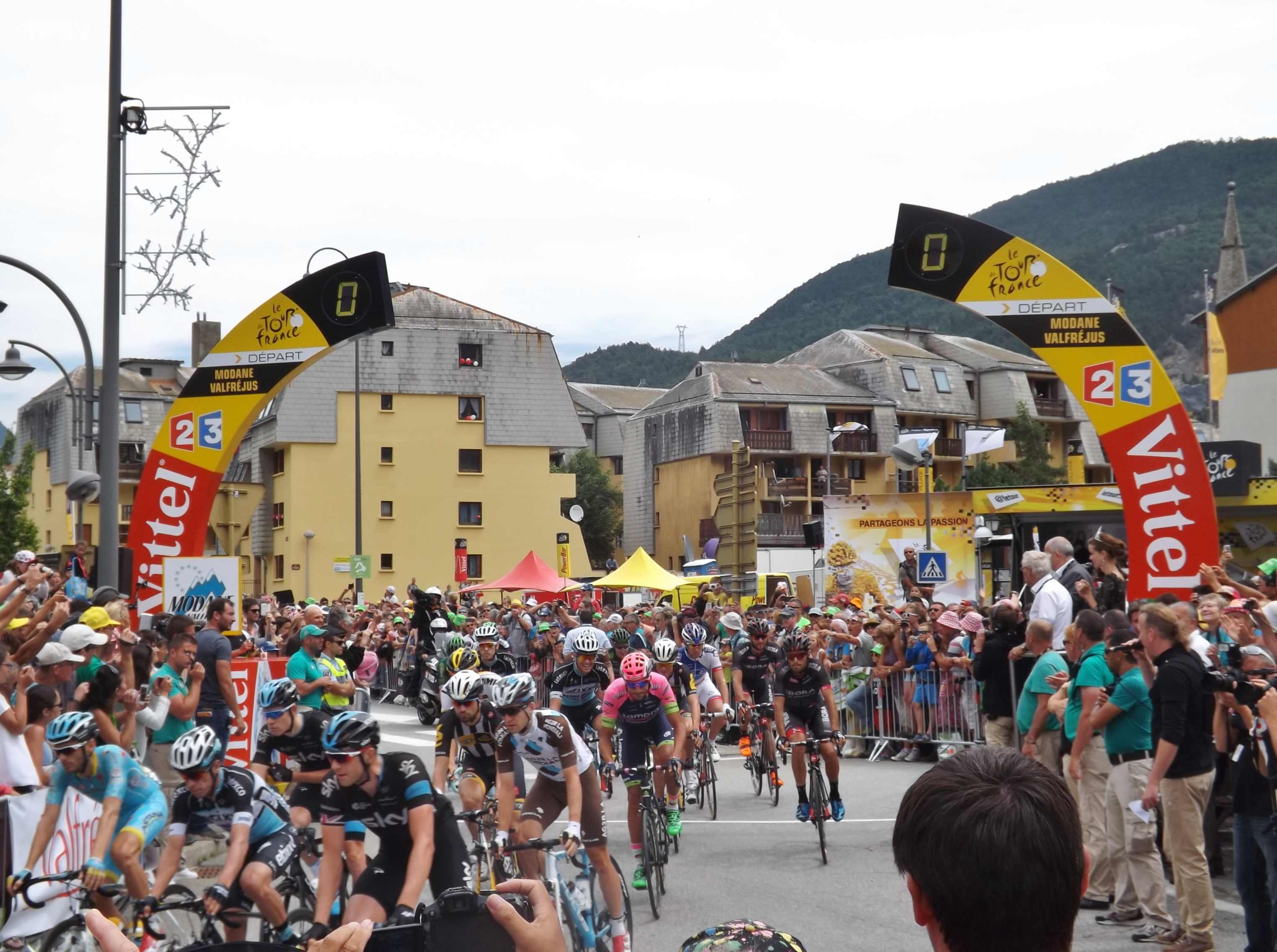 Sight of the Tour de France 2015 cyclists leaving the start line of the 20th stage, in Modane, Savoie.